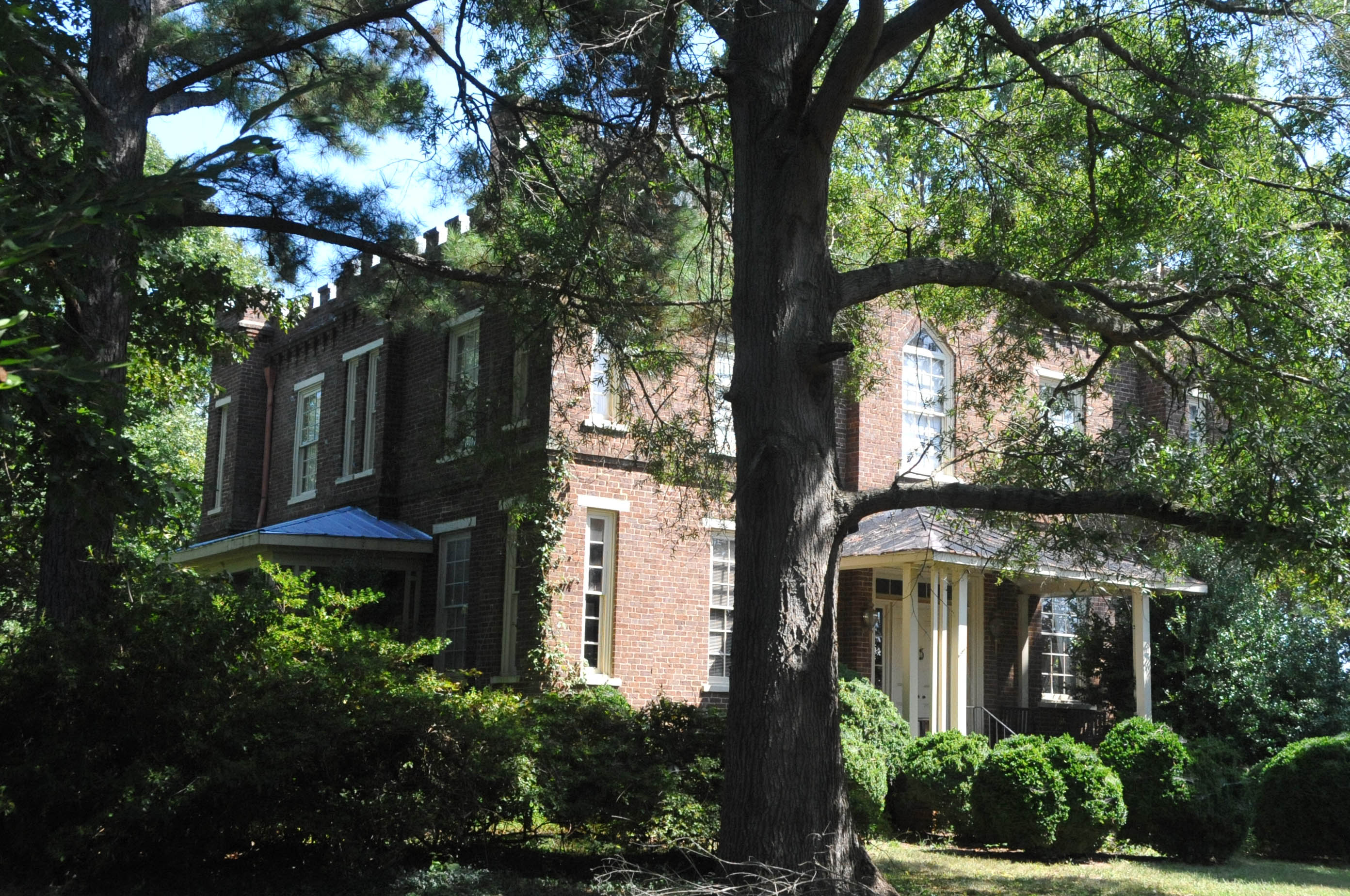 1860 AND 1895; SUPERINTENDENT’S HOME OF THE HILLSBOROUGH ACADEMY WHICH IS NO LONGER PRESENT; GOTHIC REVIVAL AND CASTELLATED